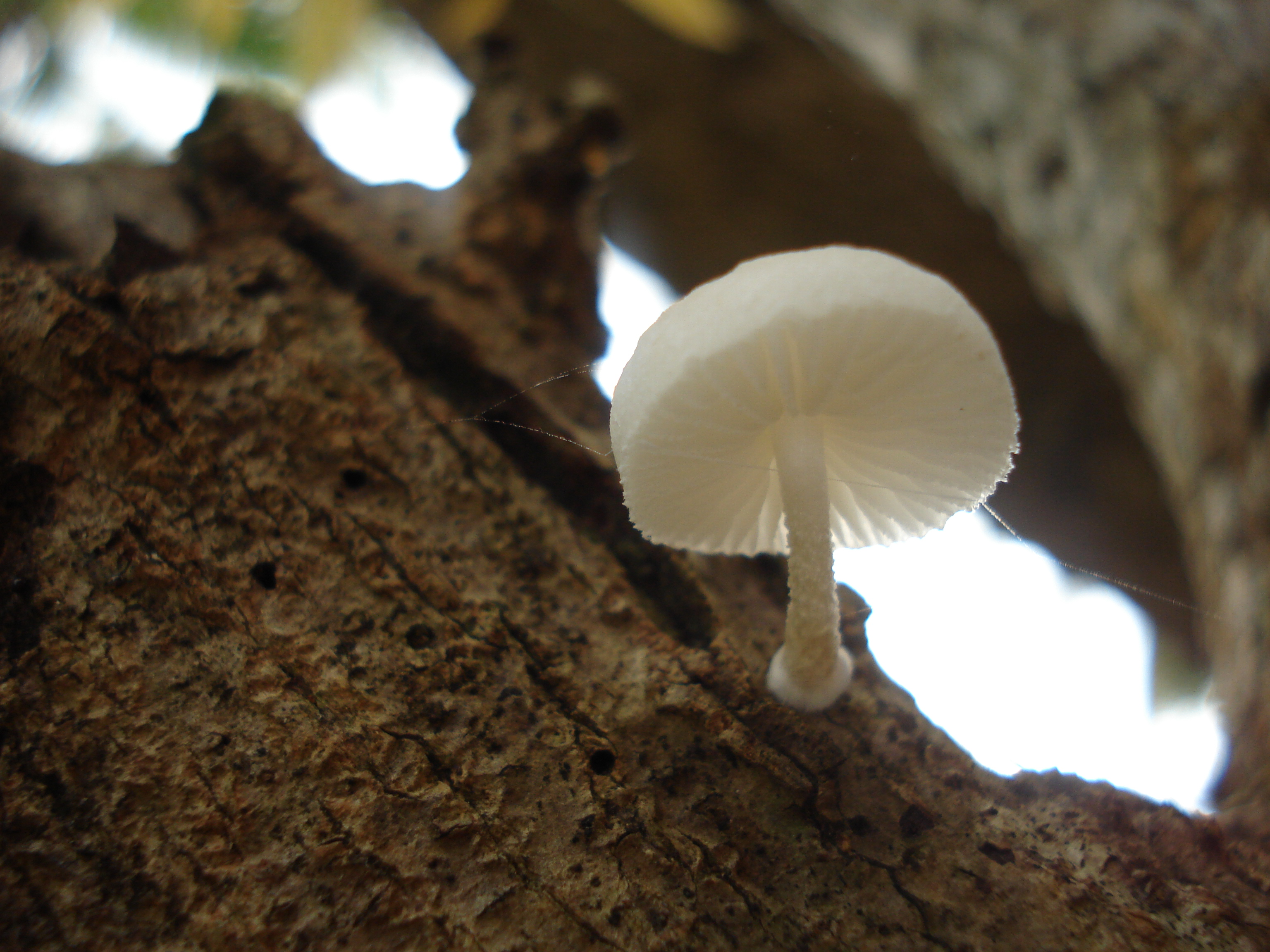 Mushroom